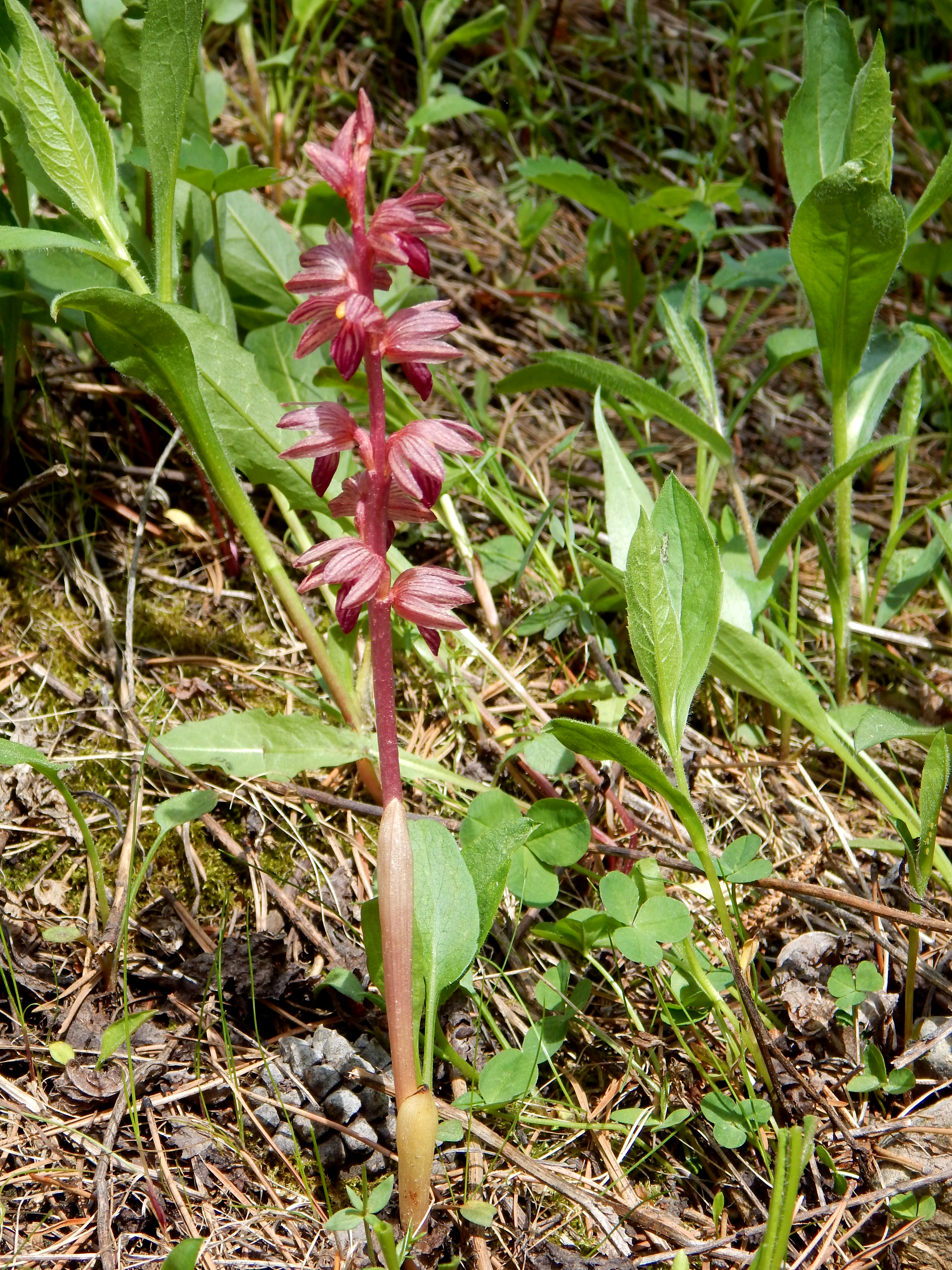 Corallorhiza striata, a coralroot orchid, growing near Barrier Lake, Alberta.